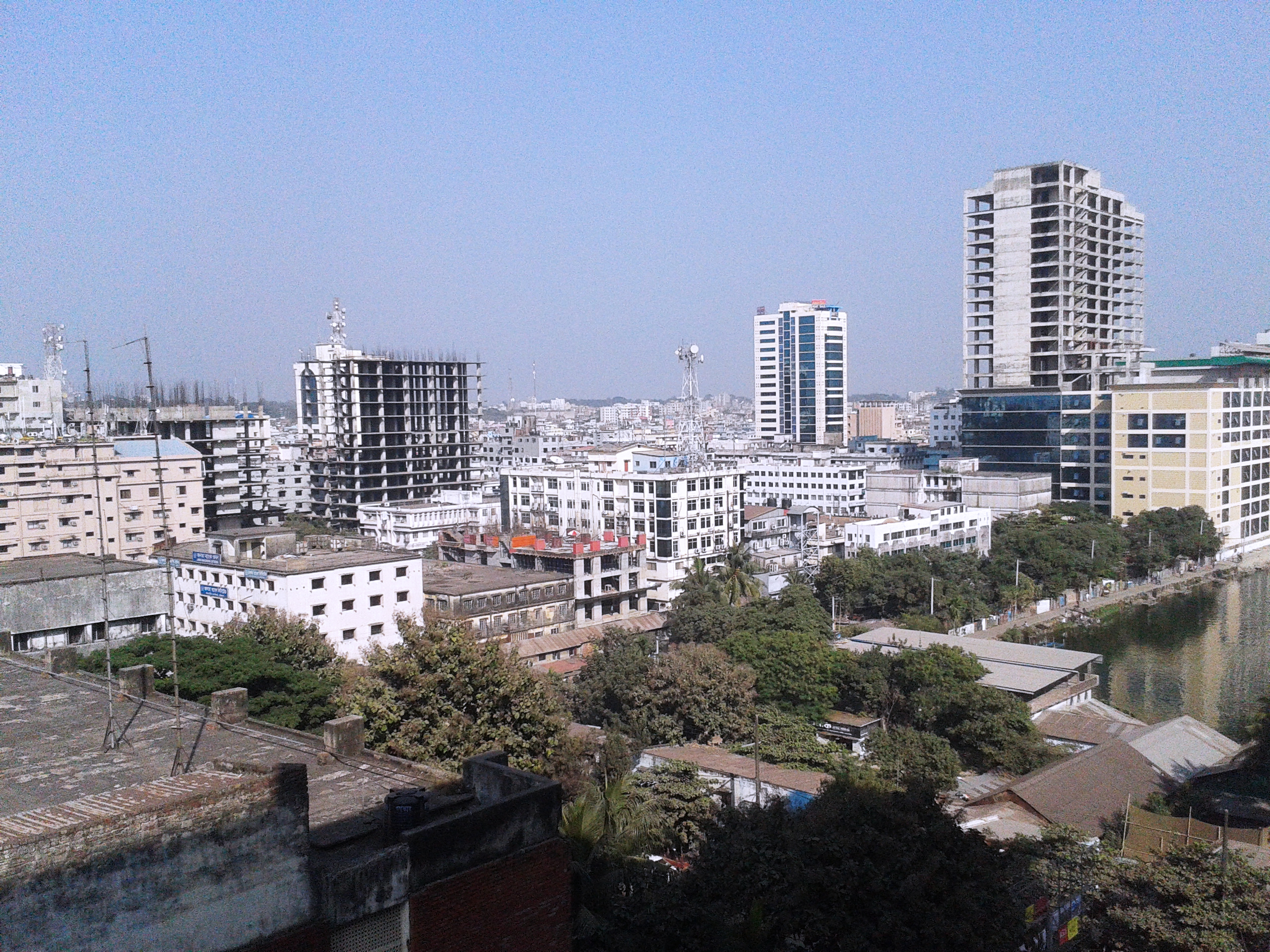 This is a photo of Agrabad was taken from C&F Tower of Agrabad. Two noticeable building can be seen in this photo, from right World Trade Center and Makka Madina Tower.